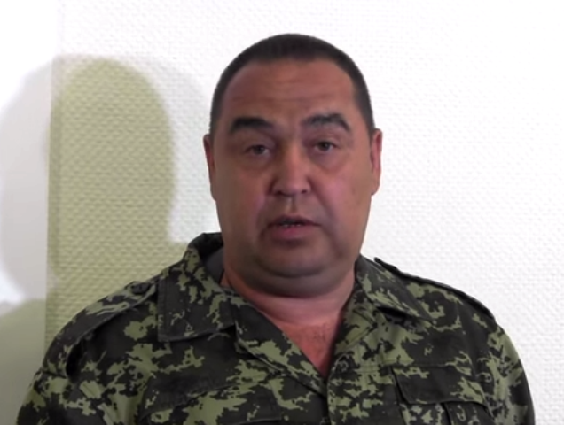 Igor Plotnitsky, the Head of Lugansk People's Republic